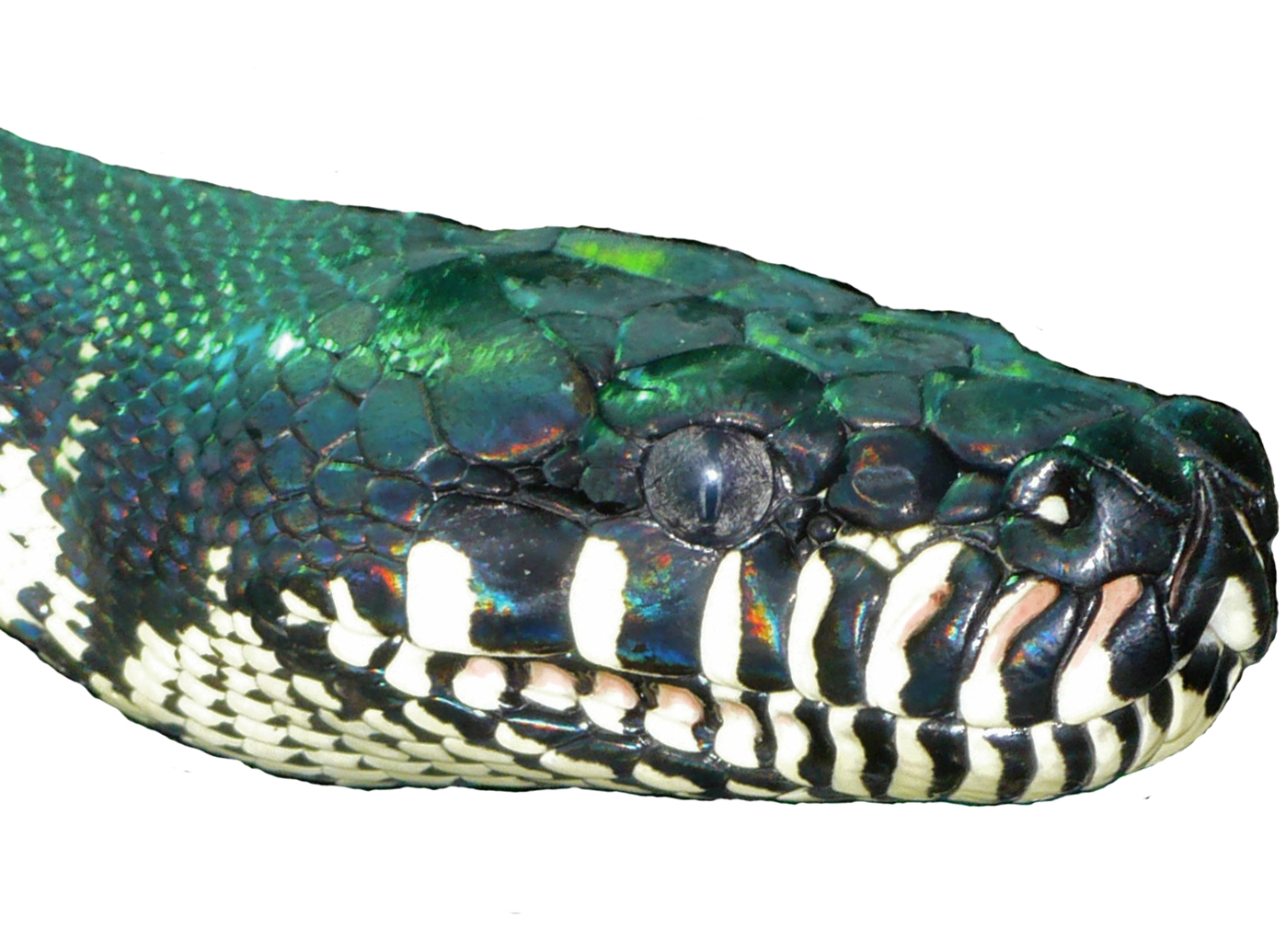 Lateral view of the head of an adult Boelen's Python (Morelia boeleni). This specimen lives in captivity (Andreas Ballaman, Switzerland)